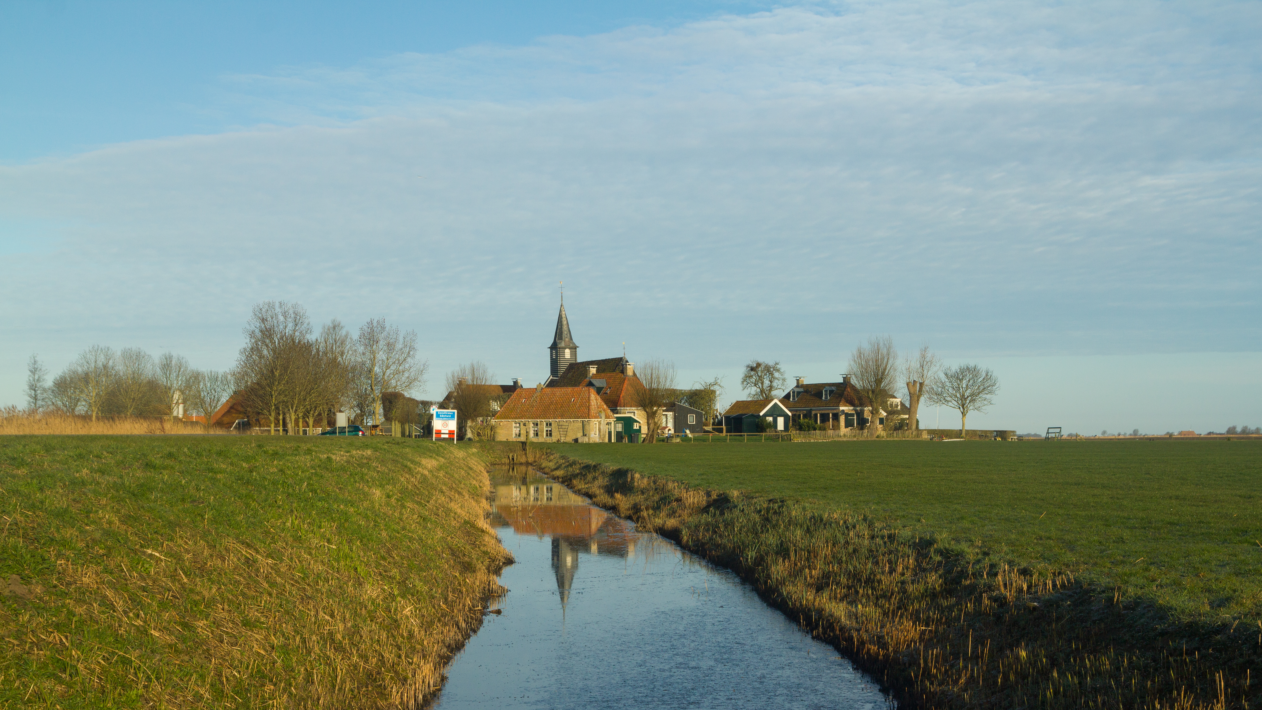 Village of Sandfirden (The Netherlands), as seen from the eastsoutheast